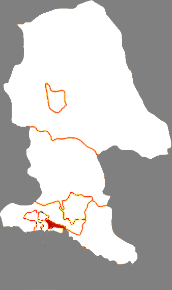 Locator map of Donghe District in Baotou City, Inner Mongolia, China